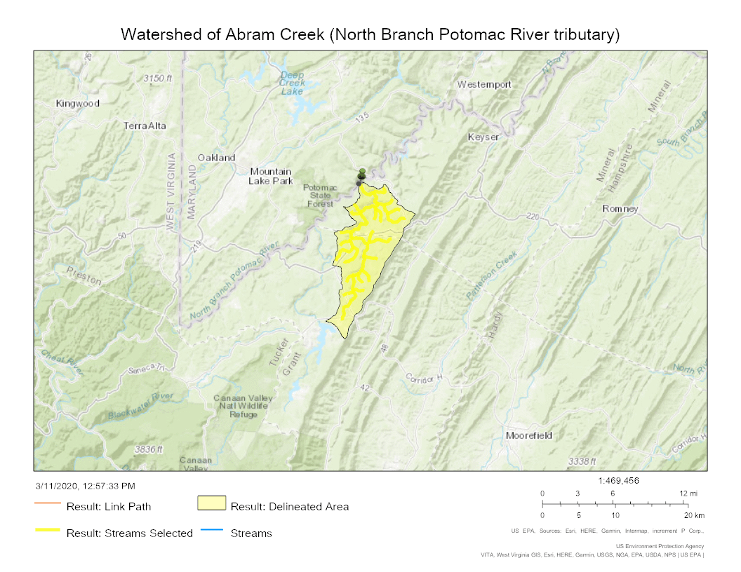 Map of watershed of Abram Creek (North Branch Potomac River tributary) in Mineral and Grant Counties, West Virginia.